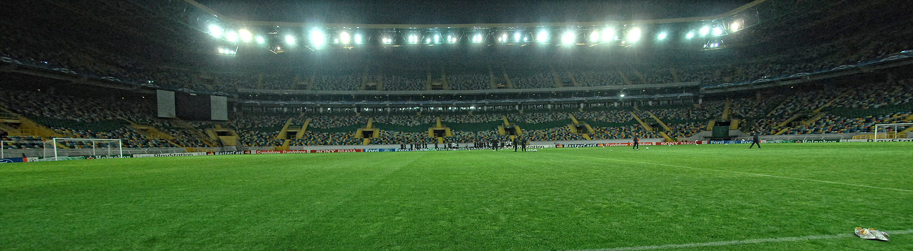 Estádio José Alvalade in Lisbon, Portugal